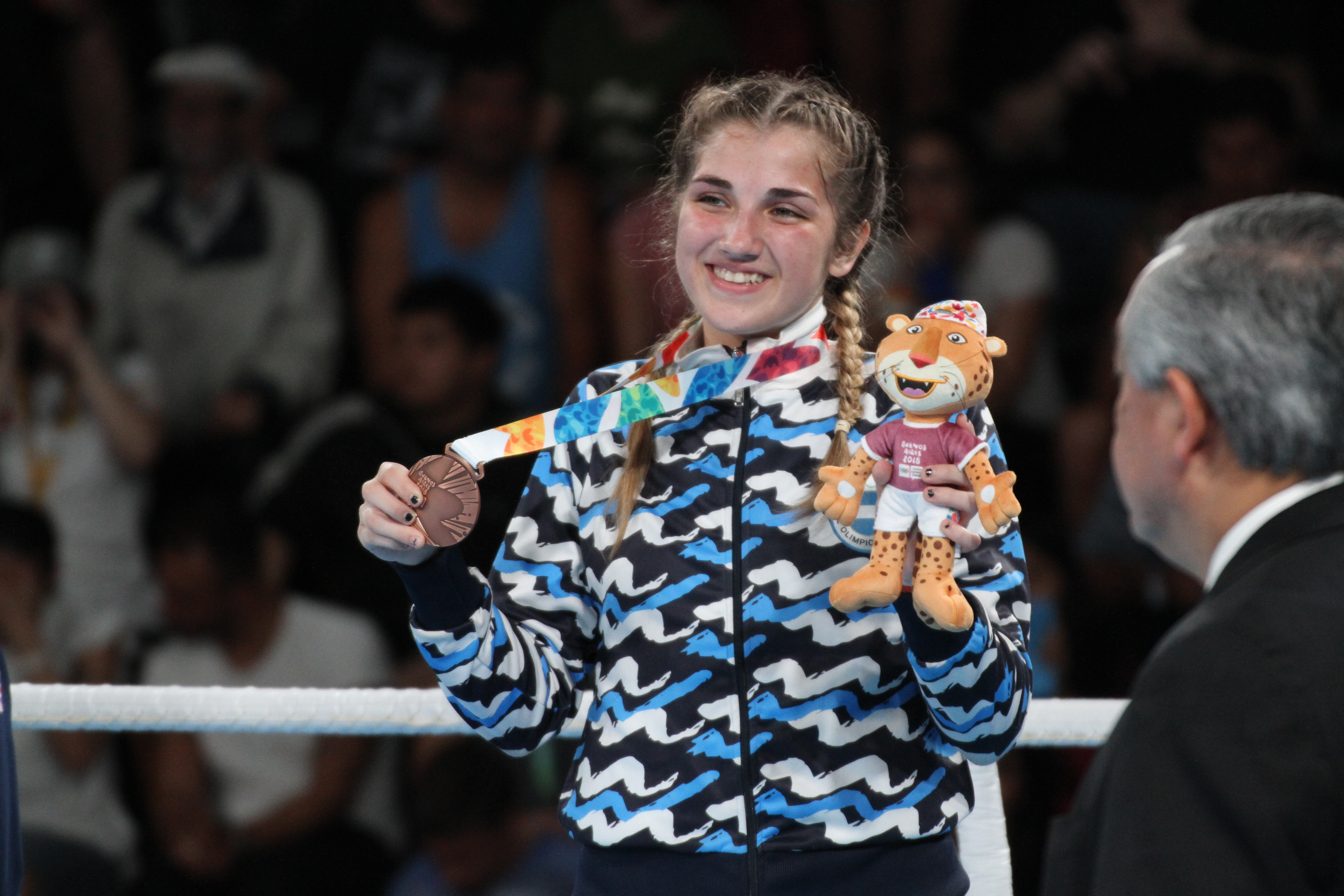 Victory Ceremony of the Girls' lightweight Boxing tournament of the 2018 Summer Youth Olympics.